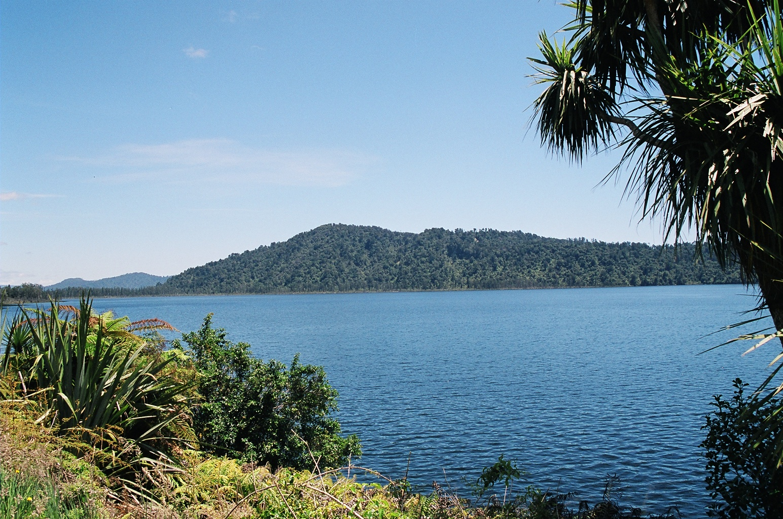 Lake Ianthe, December 2000